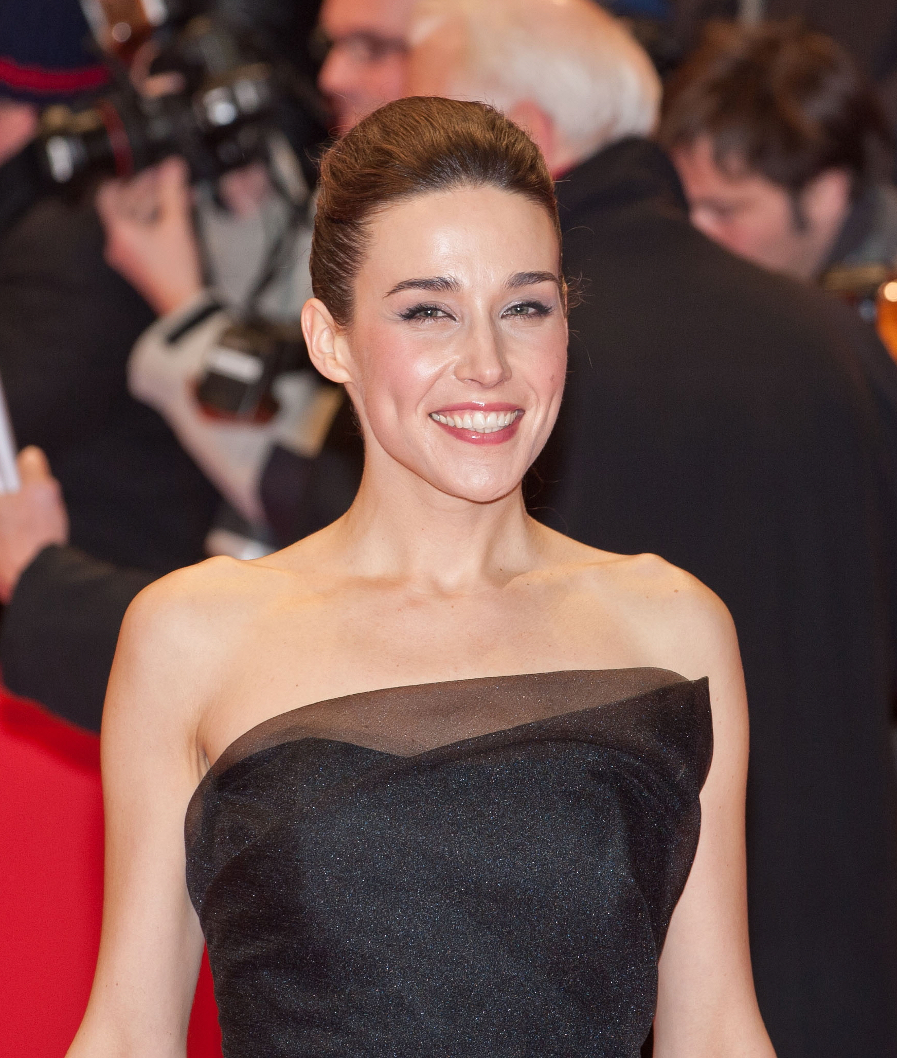 Actress Arta Dobroshi (Republic of Kosovo), arrival for the European Shooting Stars Award Ceremony